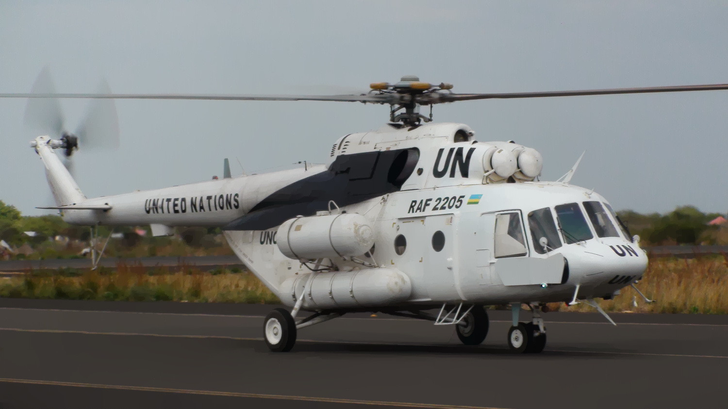 Rwandan Air Force Mil Mi-17 at Juba, South Sudan